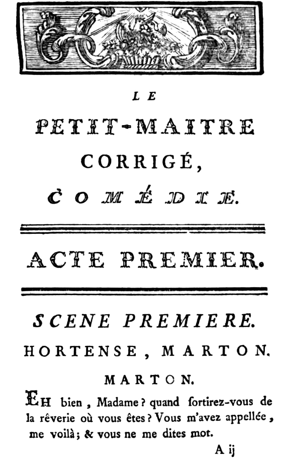 First page of The Fop Corrected (1734) by Pierre de Marivaux (1688-1763)